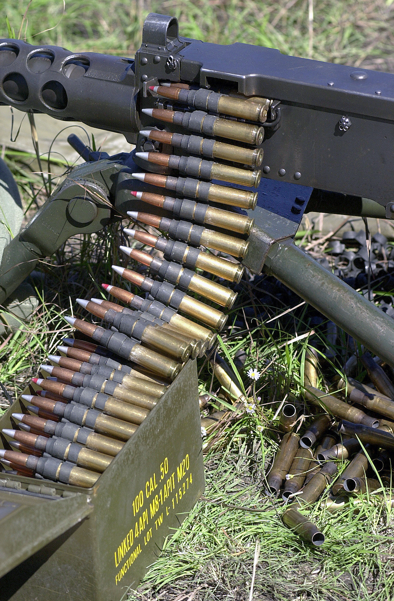 A close up shot of 0.50 Caliber (12.7 mm) Browning APIT (M8+M20) Ammunition loaded onto a Browning M2 HB 0.50 caliber heavy machine gun sits ready to be fired at a live firing range in the Shoalwater Bay, Queensland, Australia, during Exercise TANDEM THRUST. Note that the red tipped rounds are tracer rounds. They are every fifth, meaning they are four-to-one tracer rounds. TANDEM THRUST is a combined US, Australian, and Canadian military training exercise.